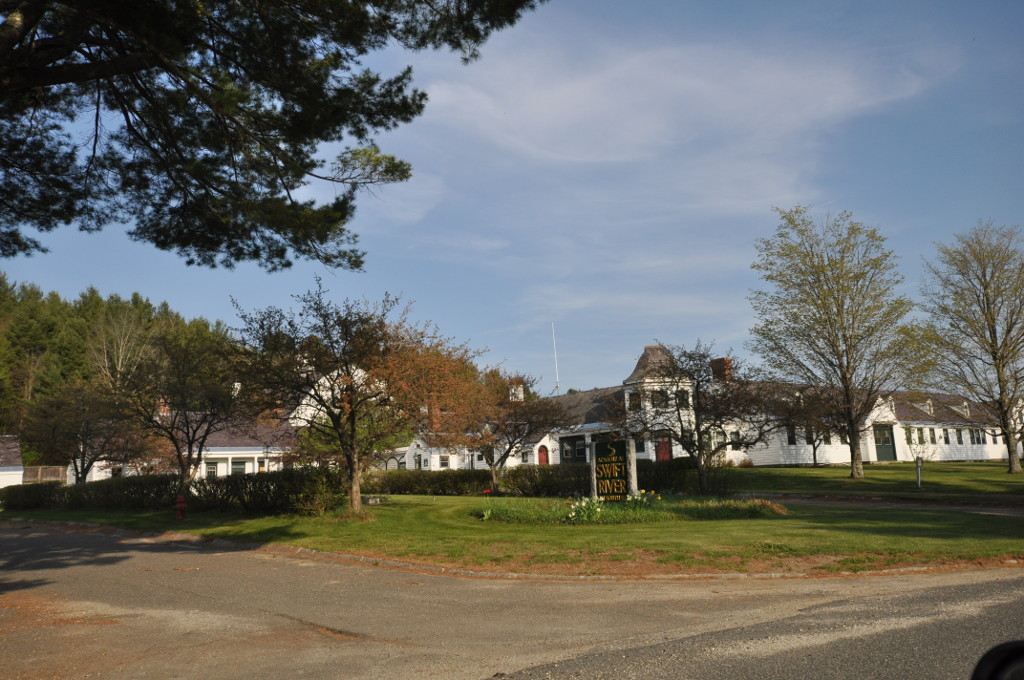 Main buildings of the former Academy at Swift River, Plainfield, Massachusetts